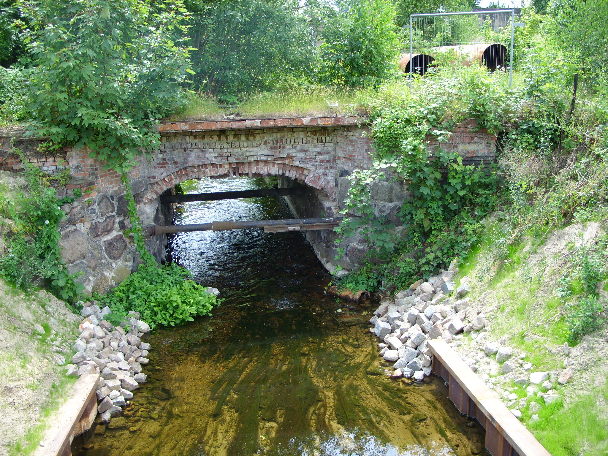 Aubach bridge from 1773 in Schwerin, Germany